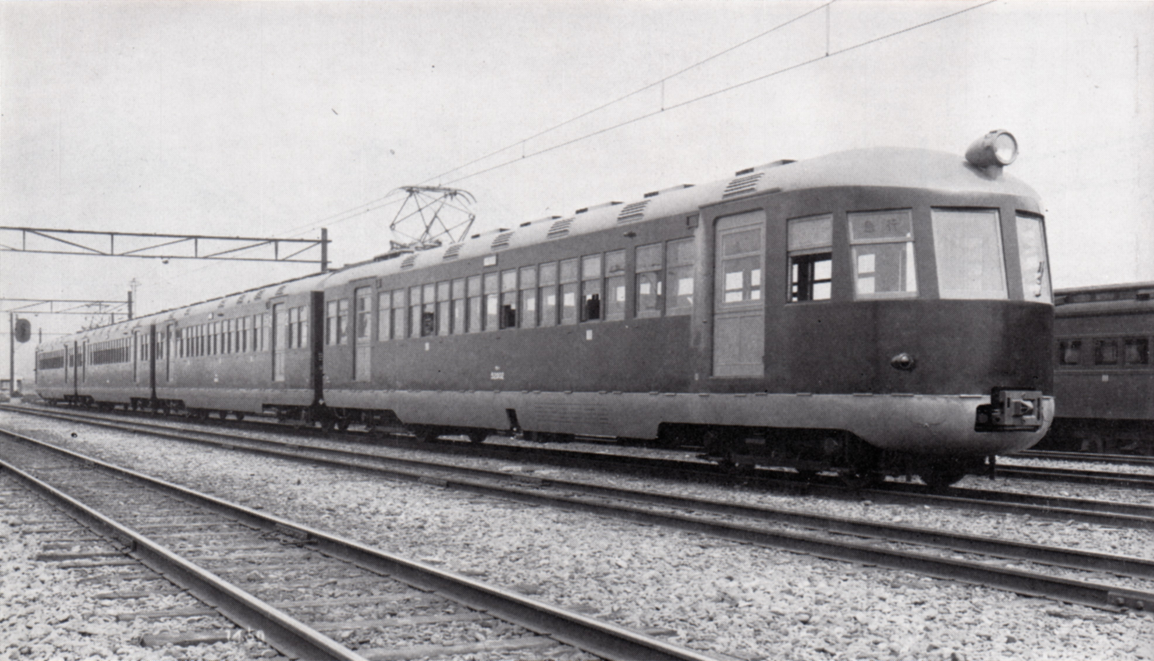 A Japanese Government Railways MoHa 52 first-batch electric multiple unit train at Miyahara